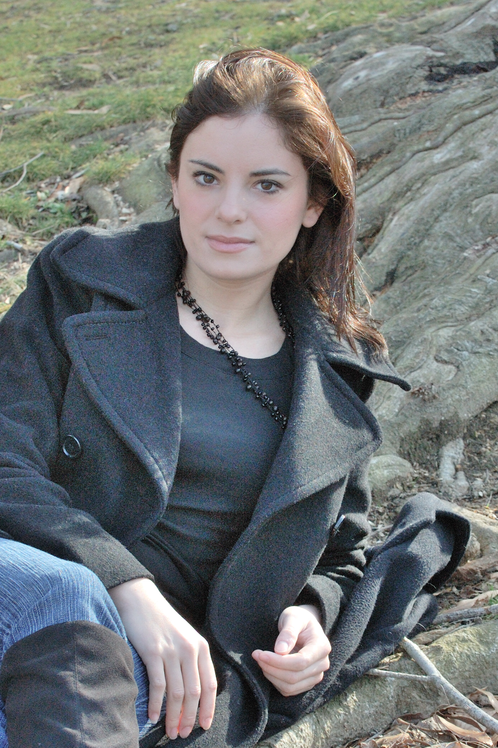 Ana Vidovic at Park in Baltimore